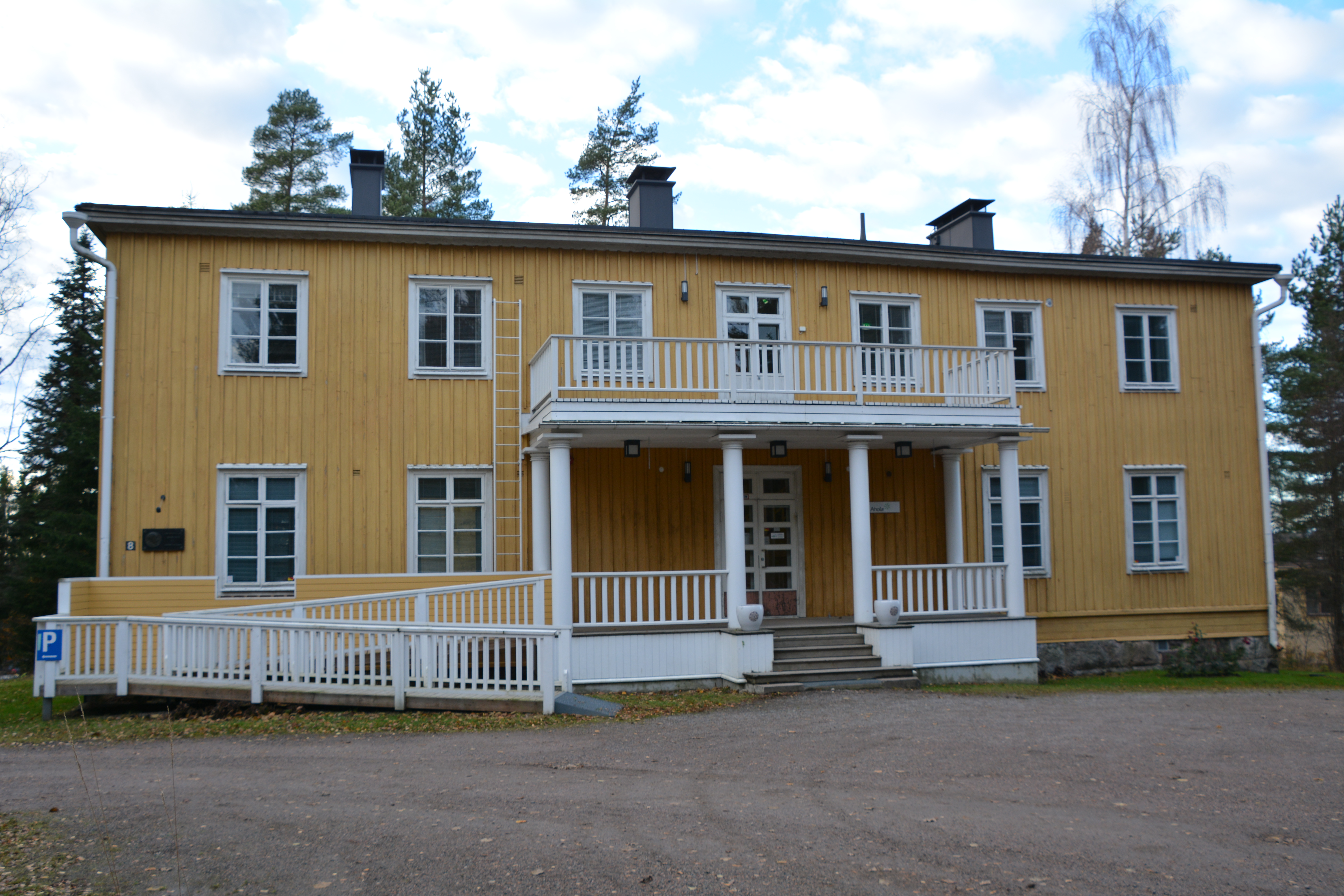 Ahola, Järvenpää, Finland